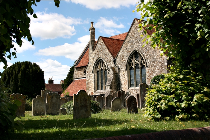 Havant Church